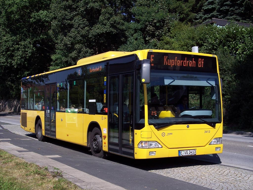 Standard model Mercedes-Benz Citaro of Essener Verkehrs-AG, Essen, Germany. Fleet number 3413 operating a schoolday extra to Kupferdreh, at Holthuser Tal.